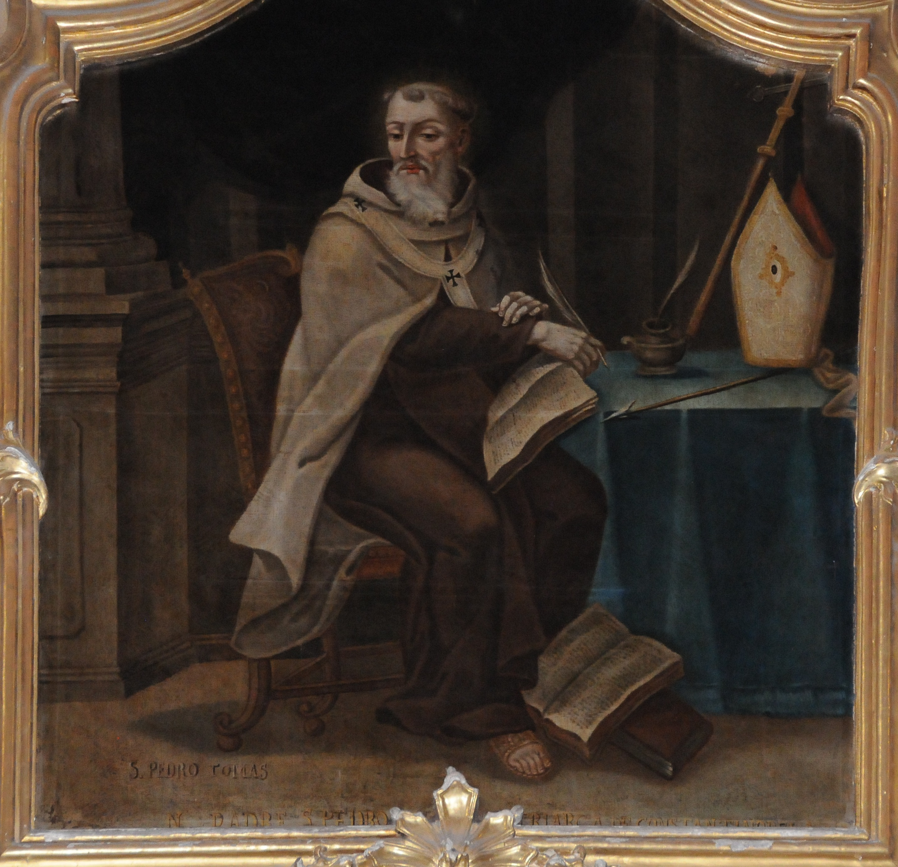 Paint of Saint Peter Thomas in Carmo Church, a Carmelite church in São Vicente, Braga, Portugal.